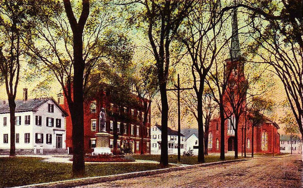 Brown Square, Newburyport, Massachusetts; from a 1913 postcard published by Curt Teich, American Art Colored.